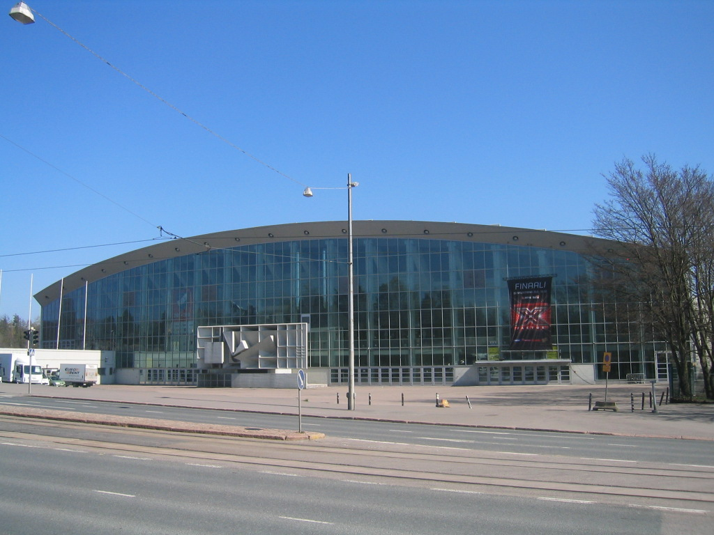 Helsinki Ice Hall, May 12th 2010